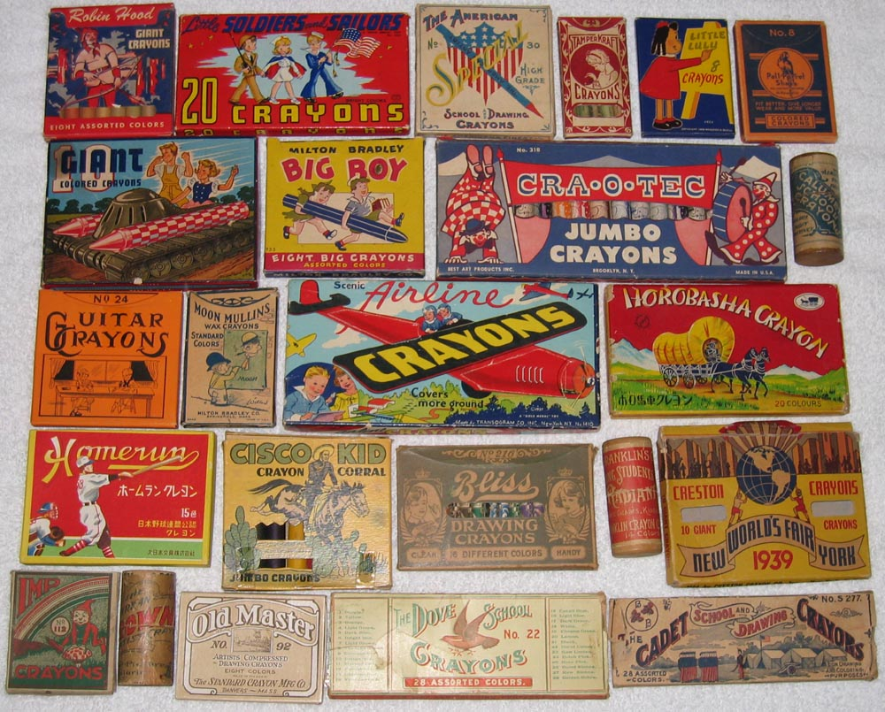 A potporri of older crayon boxes from the collection of Ed Welter